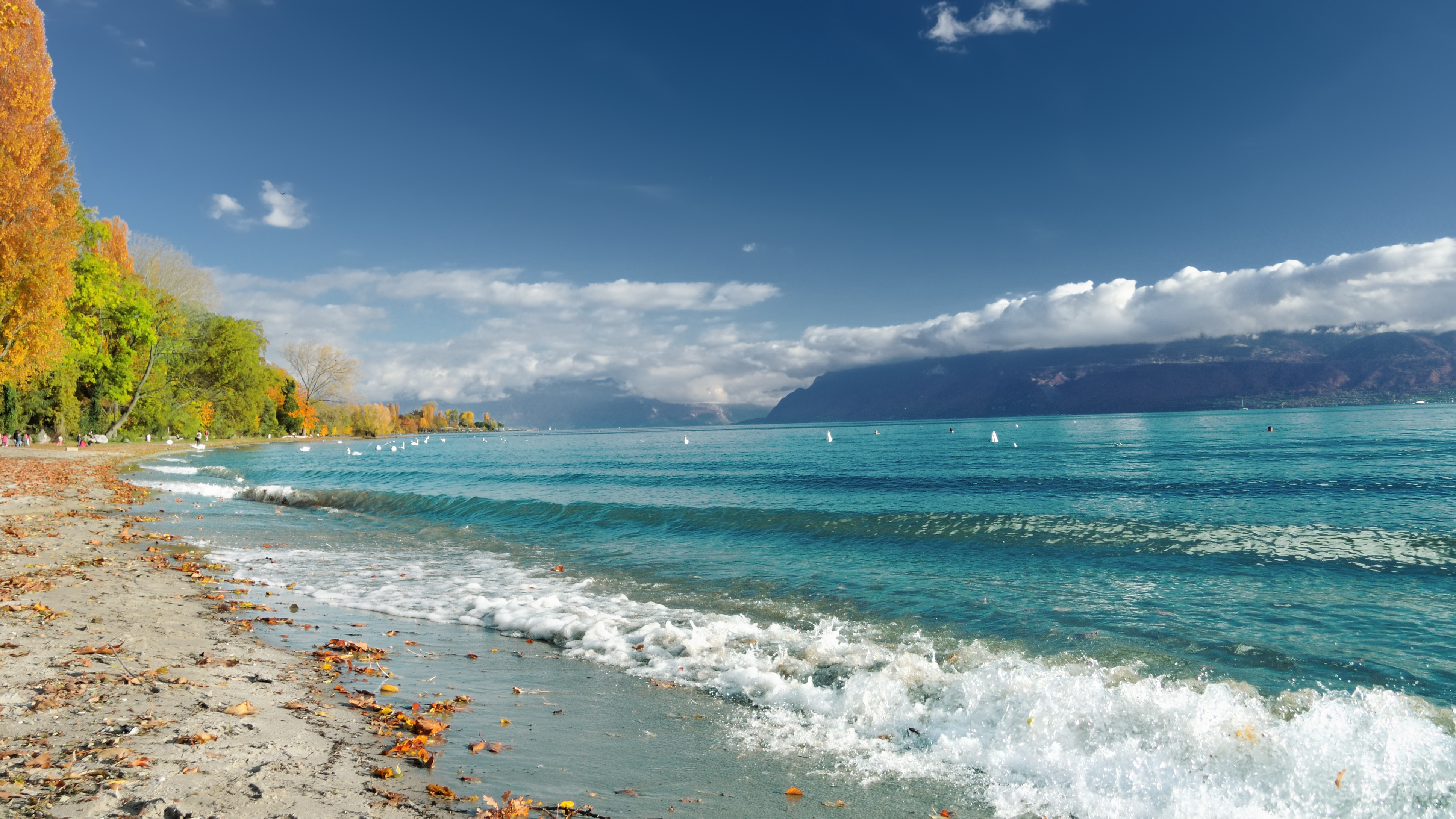 Beach on Lake Geneva, St-Sulpice (UNIL-EPFL Sports Centre)